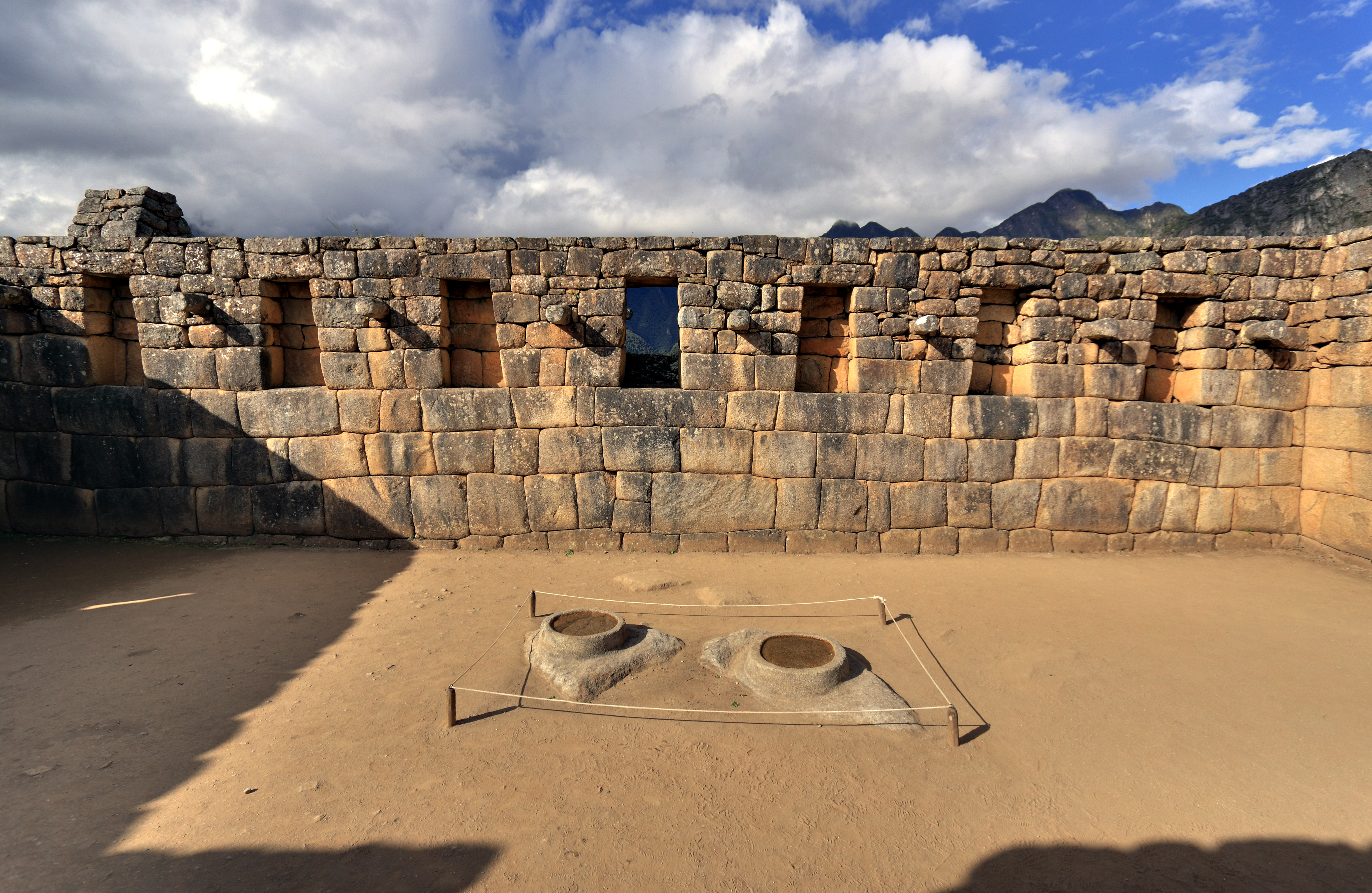 Please, have this description accessible to all by translating it in different languages.